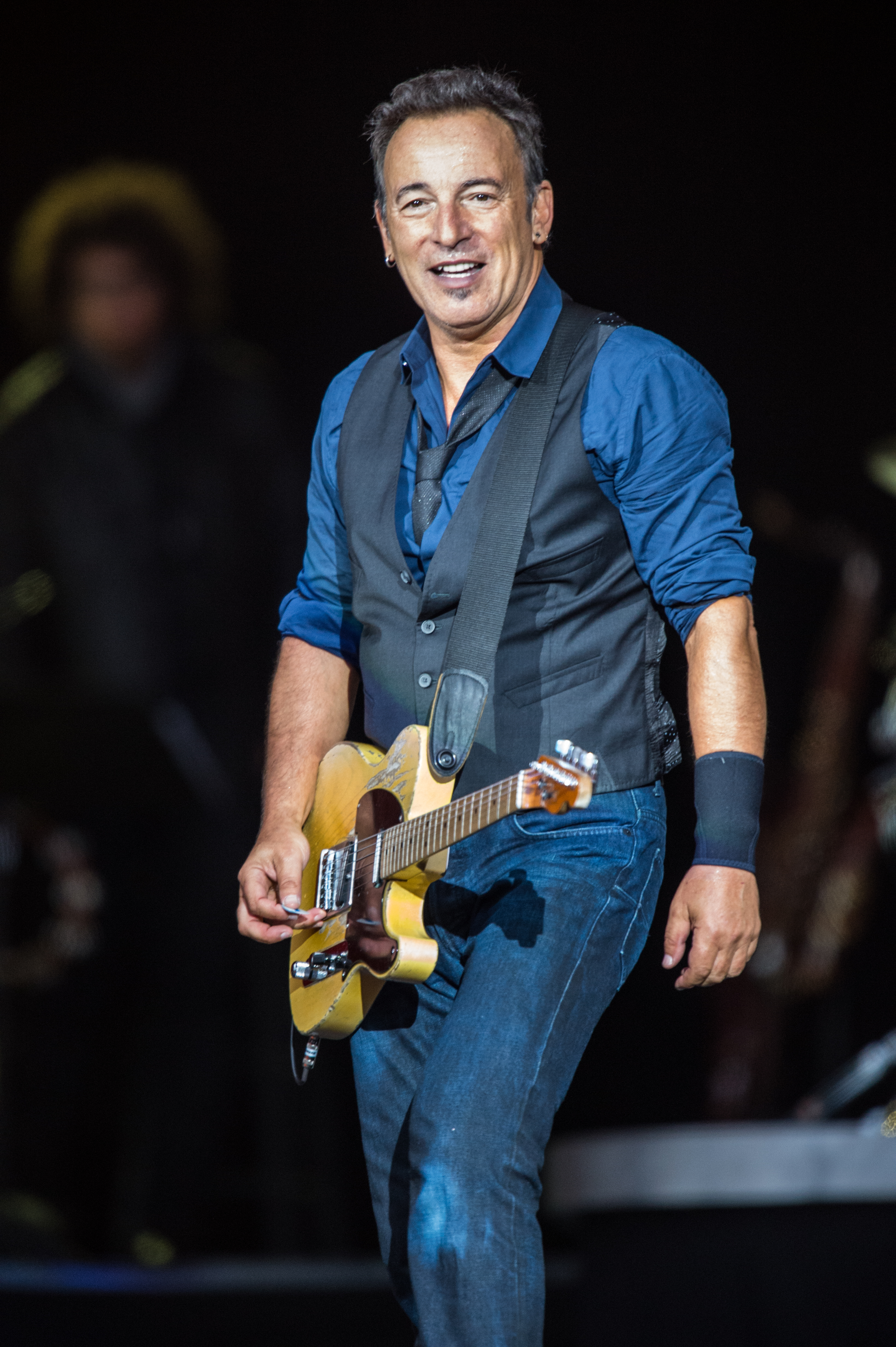 Bruce Springsteen performing at Roskilde Festival 2012. Photo credit: Bill Ebbesen.